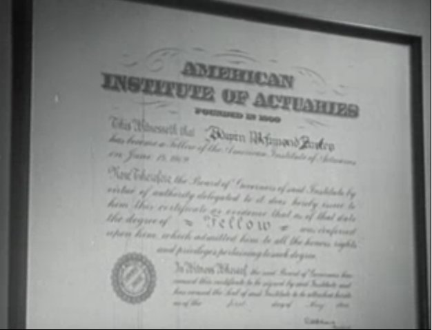 Screen capture from 5:30 mark of the film to show a diploma as issued by the American Institute of Actuaries in the 1940's. Low resolution, highly unlikely to cause fraudulent usage, as the individual would be at least in their 70's to have such a certificate these days.